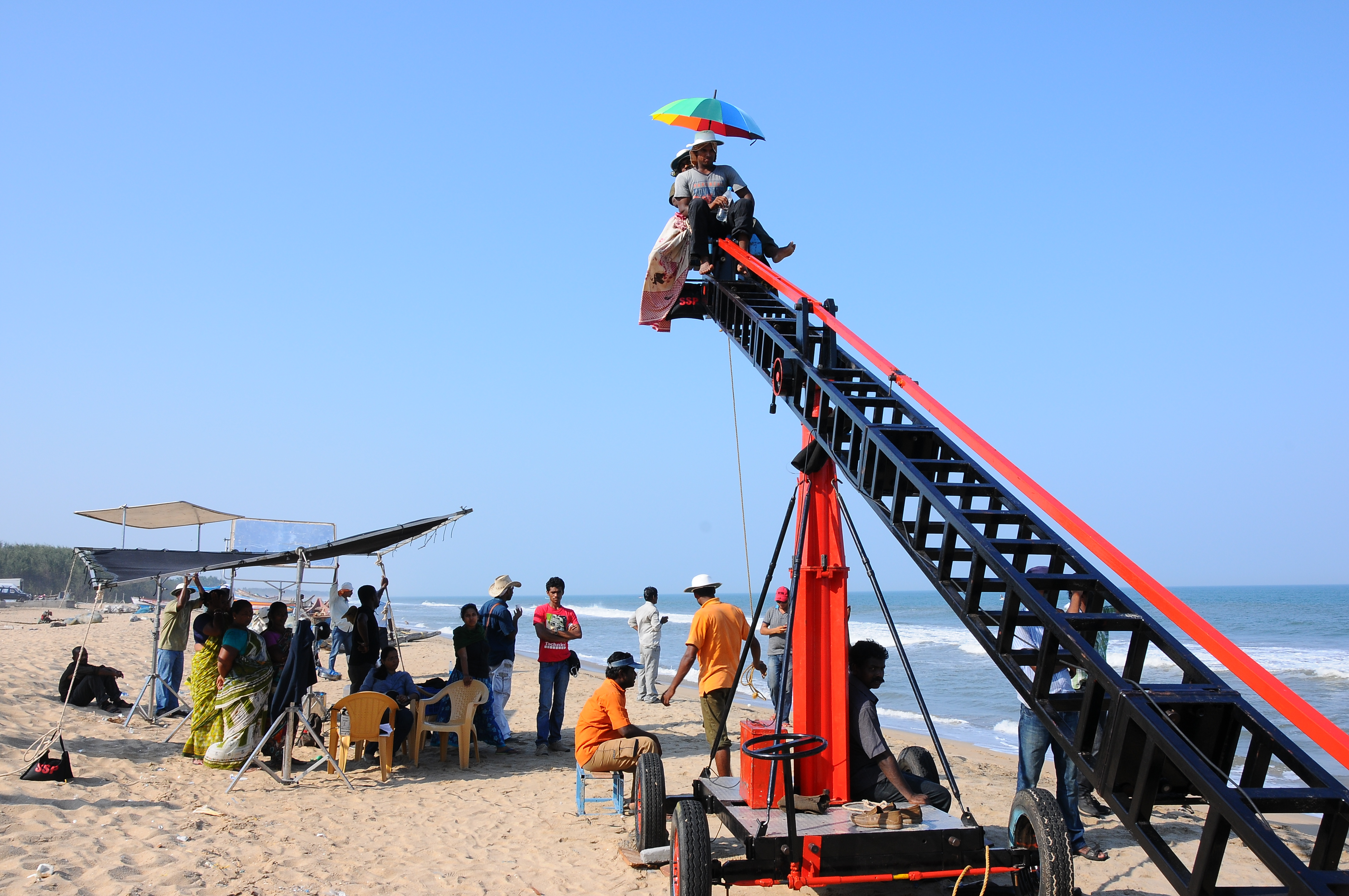 LIF Locations